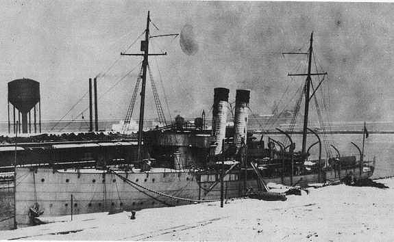 Photo of the USS Wilmette cira 1918